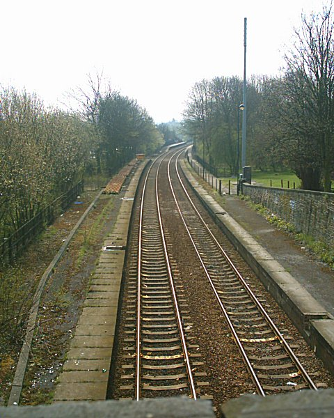 Chapeltown Station, Sheffield in 2004.